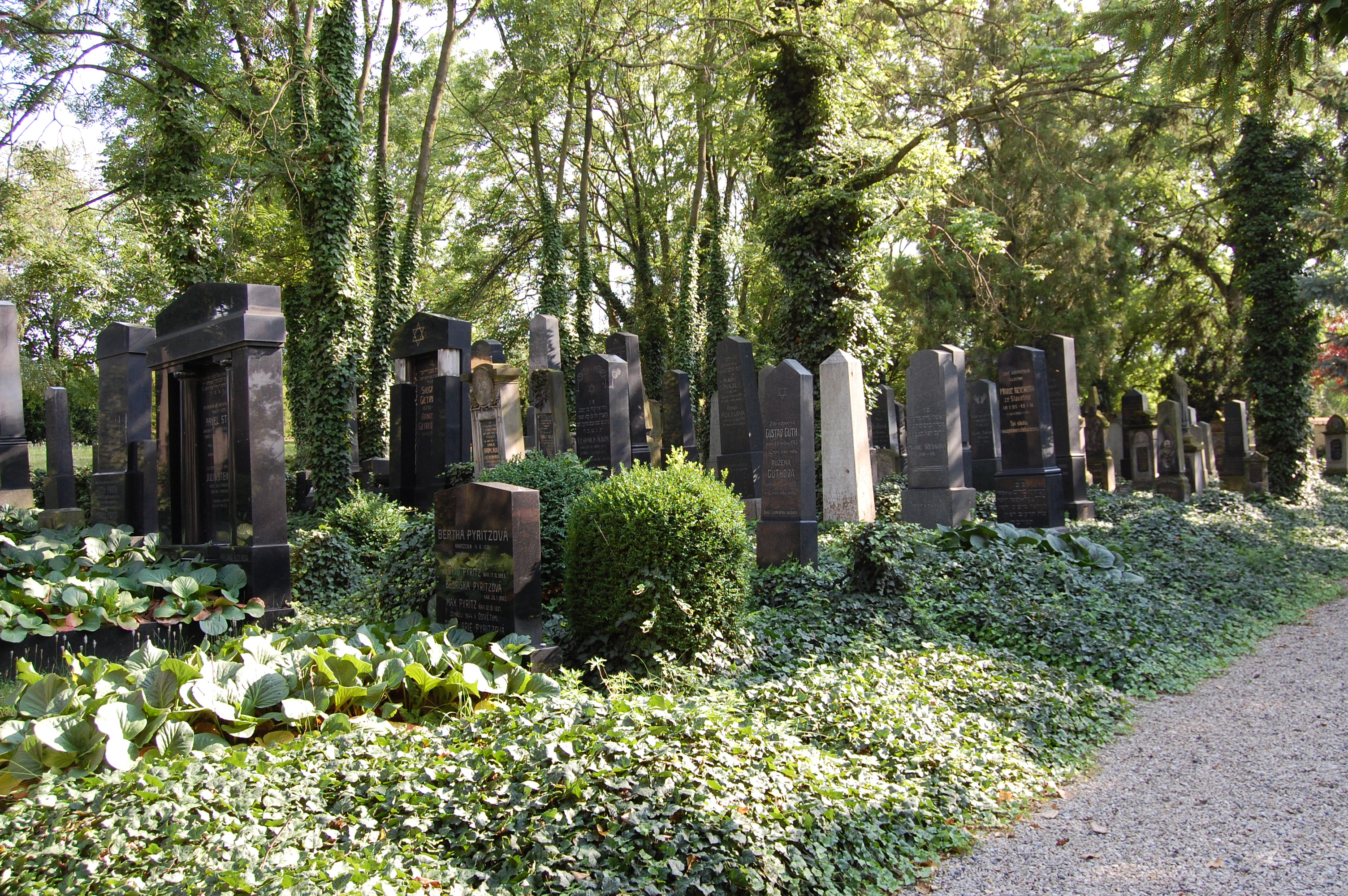 Jewish cemetery in Louny Česky: Židovský hřbitov v Lounech